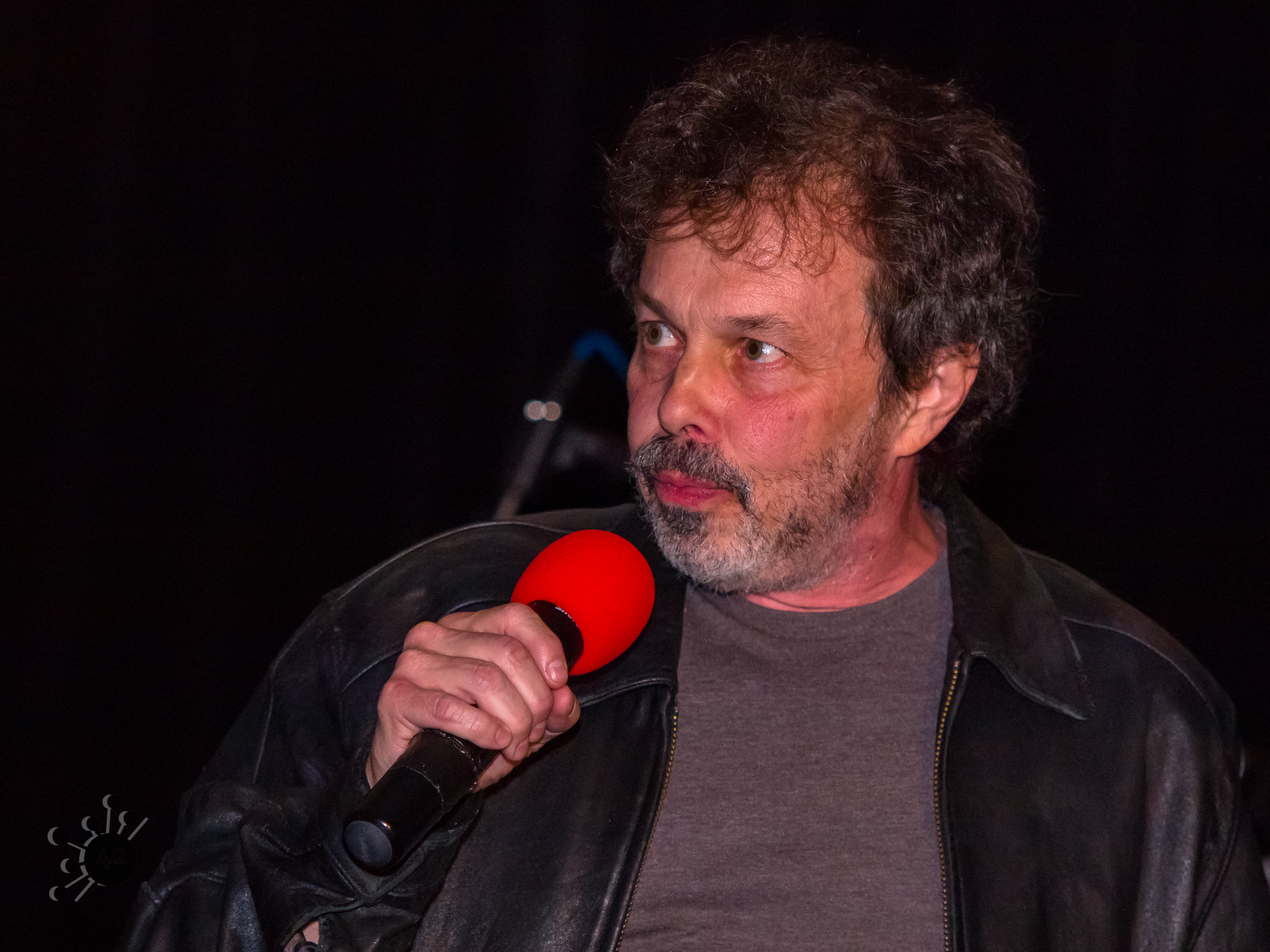 Image of actor Curtis Armstrong at the 2014 J2 Panel in Seattle for tv show Supernatural.